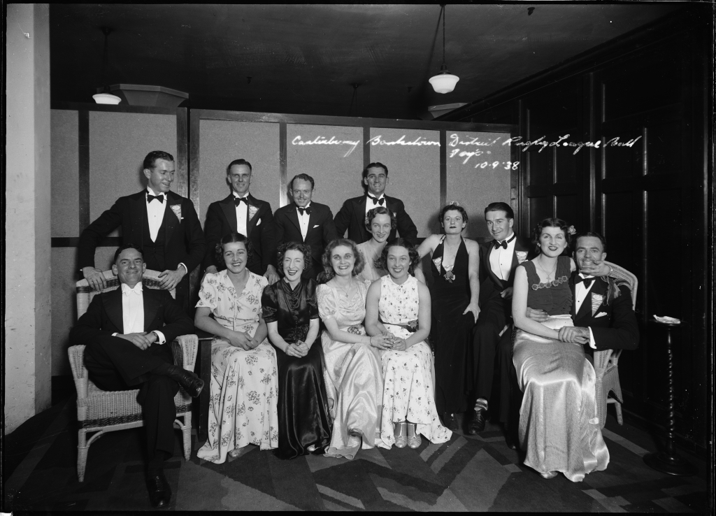 A photo from the Tom Lennon Photographic Collection from the Powerhouse Museum.